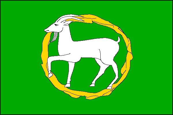 Municipal flag of Kozojídky village, Hodonín District, Czech Republic.